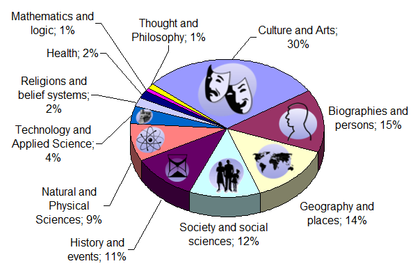 Pie chart of Wikipedia content by subject as of January 2008. Reference: What’s in Wikipedia? Mapping Topics and Conflict Using Socially Annotated Category Structure . Aniket Kittur, Carnegie Mellon University. Ed H. Chi, Bongwon Suh, Palo Alto Research Center. April 8th, 2009